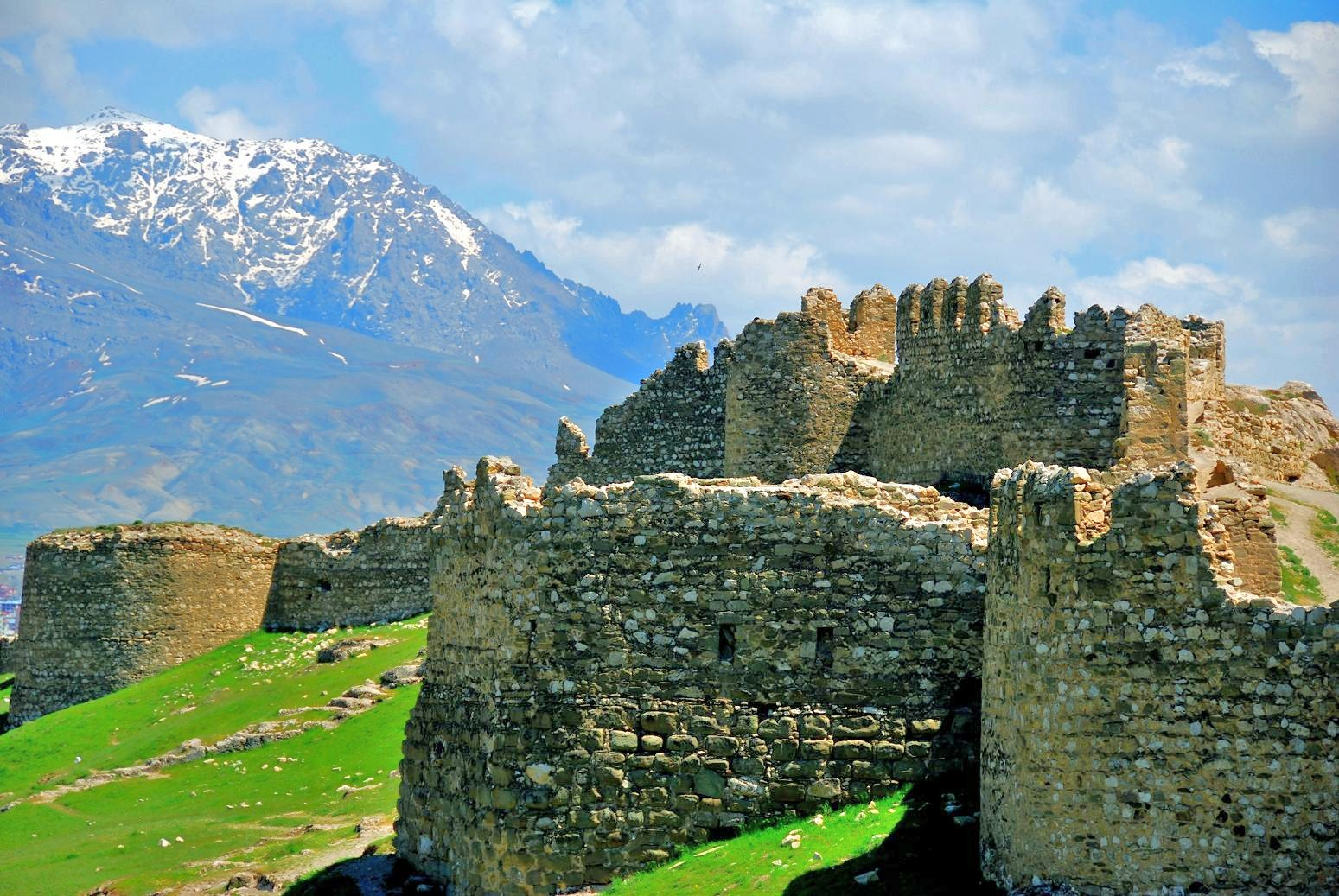 Van Castle